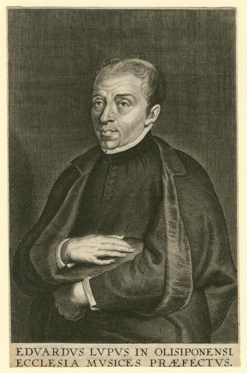 Portrait of Duarte Lobo (Eduardus Lupus).